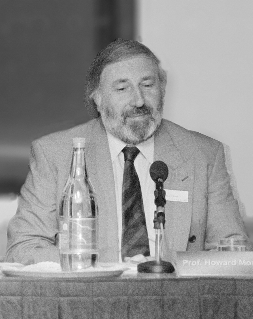 taken at the Witness Seminar “Endogenous Opiates” held by the History of Twentieth Century Medicine Group, 07-Nov-1995.